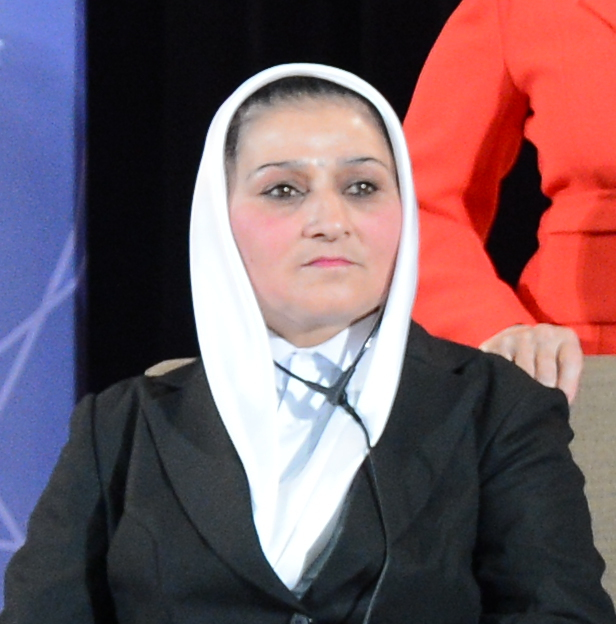 Malalai Bahaduri of Afghanistan from a larger picture which said Standing from left to right, Mrs. Teresa Heinz Kerry, First Lady Michelle Obama, U.S. Secretary of State John Kerry, and U.S. Under Secretary of State for Political Affairs Wendy Sherman pose for a photo with the 2013 International Women of Courage Award Winners, including left to right, Second Lieutenant Malalai Bahaduri of Afghanistan, Dr. Josephine Obiajulu Odumakinof Nigeria, Elena Milashina of Russia, Fartuun Adan of Somalia, and Julieta Castellanos of Honduras, at the U.S. Department of State in Washington, D.C., on March 8, 2013. [State Department photo/ Public Domain]